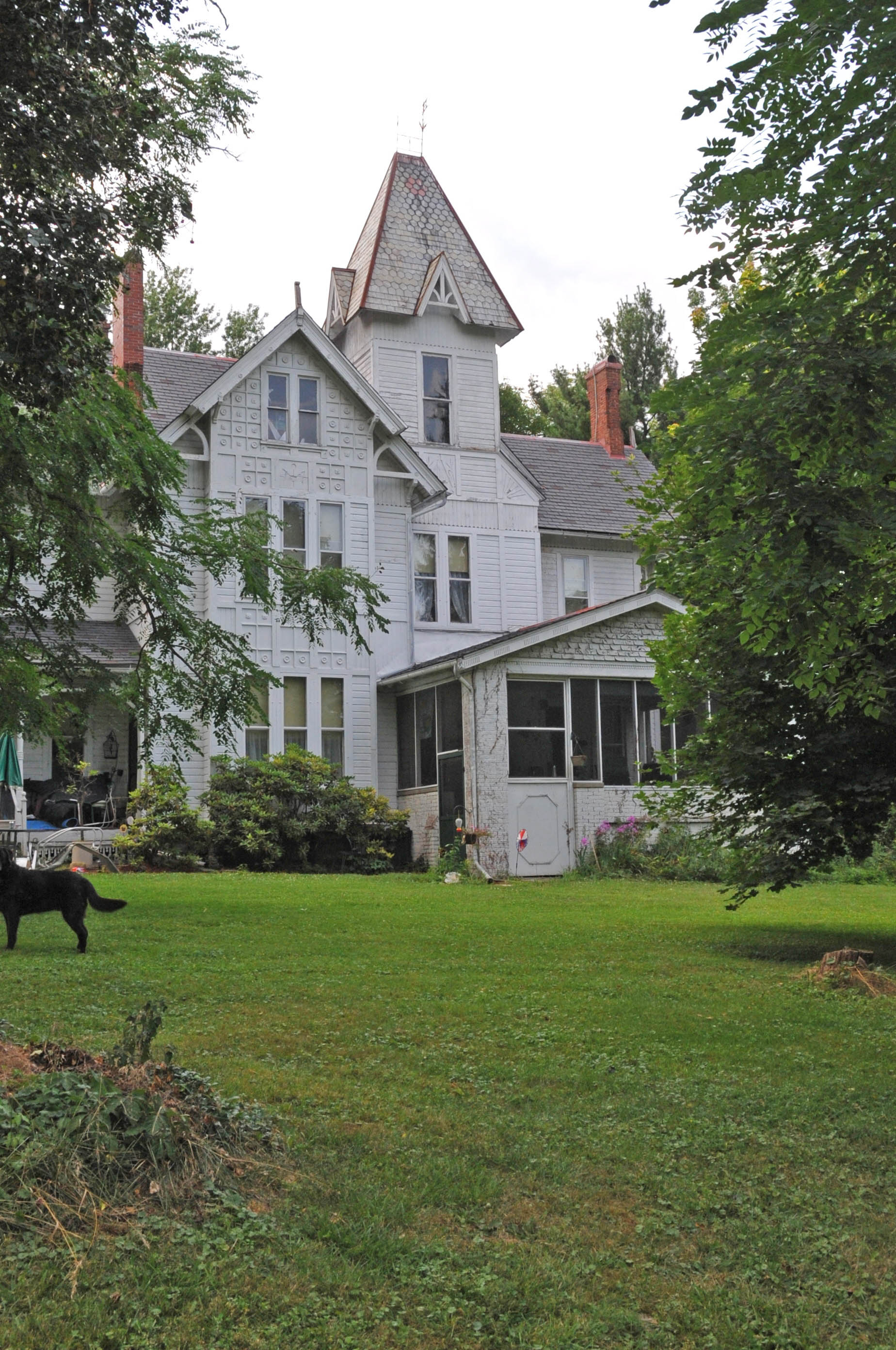 FARMHOUSE BUILT IN 1874; SITE ASLSO INCLUDES A GERMAN STYLE BANK BARN AND OTHER AGRICULTURAL OUTBUILDINGS